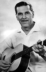 Finnish songwriter Reino "Repe" Helismaa